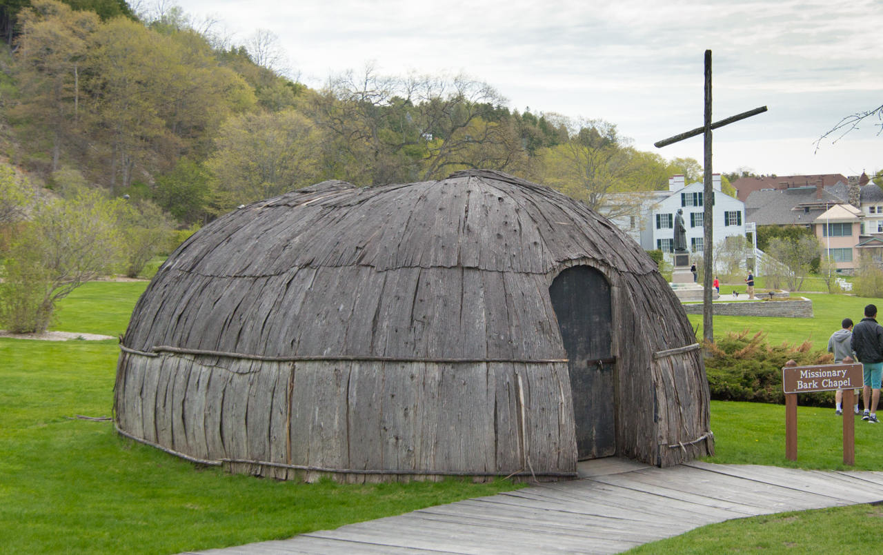 French Missionary Chapel